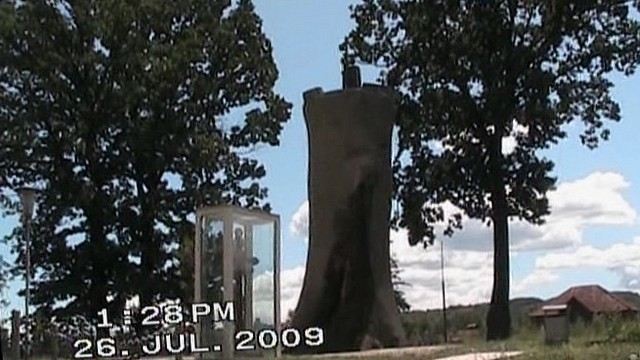 Sessile oaks, Țebea, Hunedoara